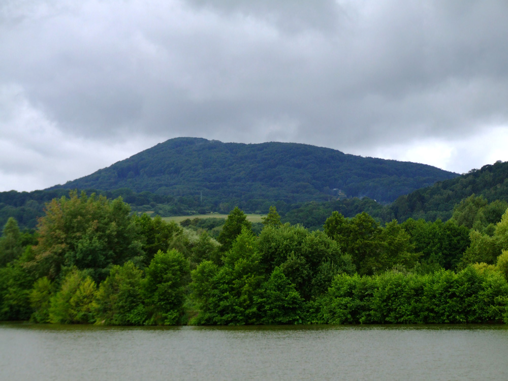 Sedlo Hill from Česká Lípa, Czech Republic.